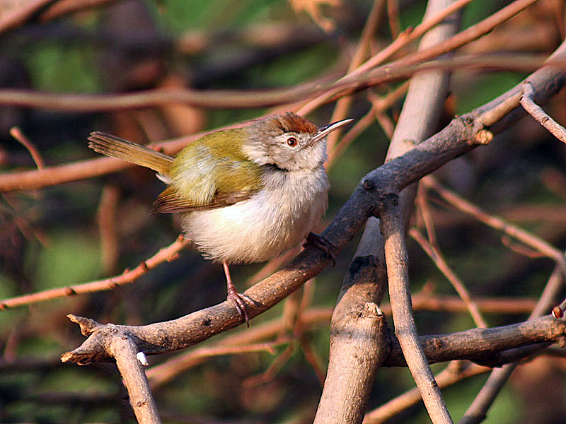 Common Tailorbird Orthotomus sutorius at Hodal in Faridabad District of Haryana, India.